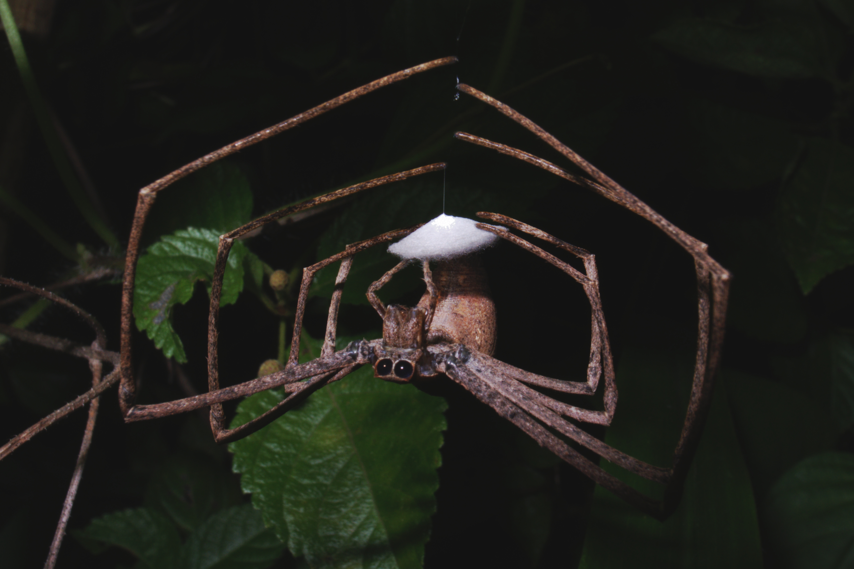 A female Deinopis spider making its egg cocoon